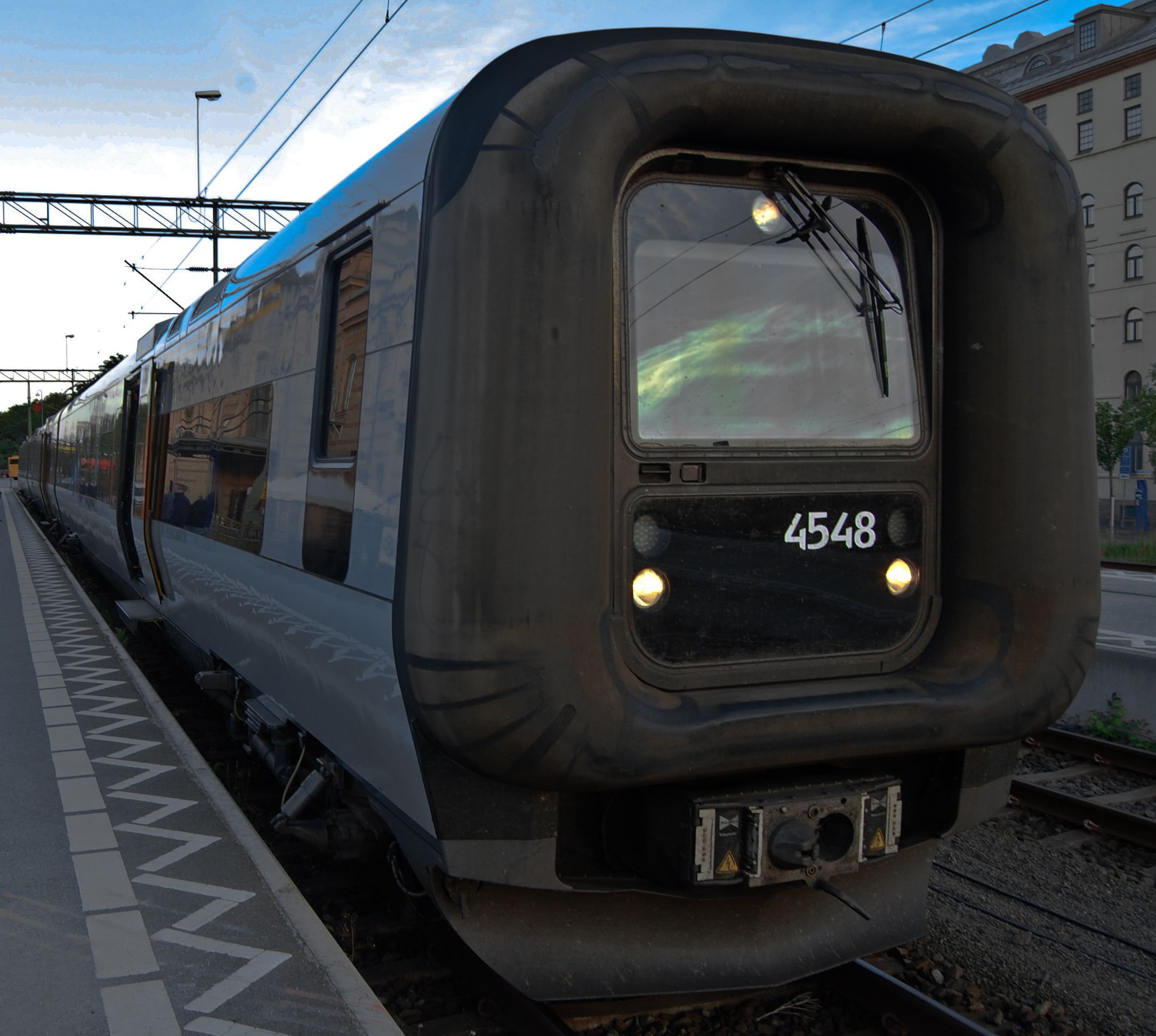 An Öresundståg in Kristianstad.